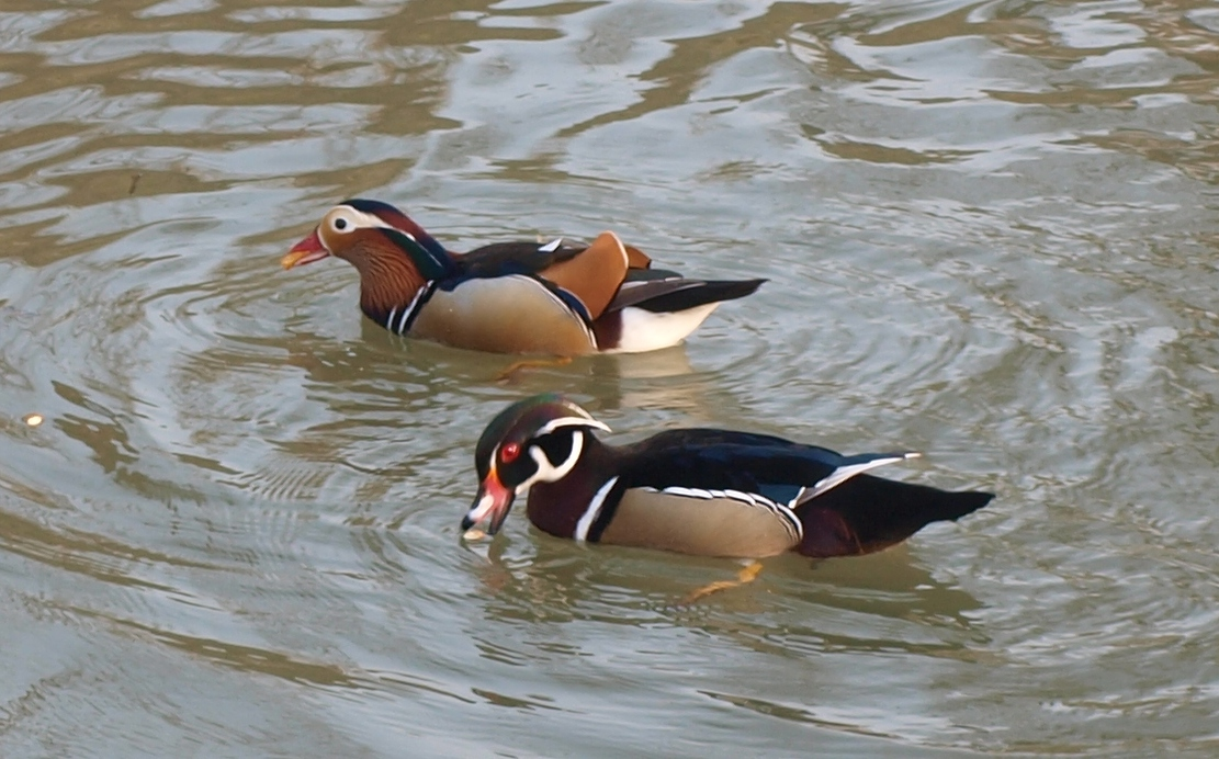 Ducks. Aix galericulata behind, Aix sponsa in front.